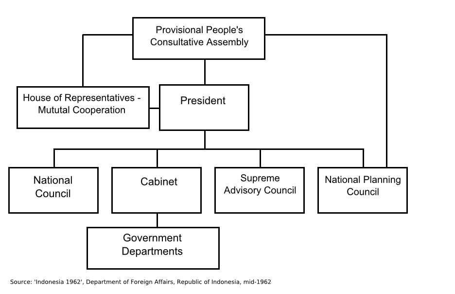 The Basic Political structure of Indonesia under Guided Democracy as of 1962